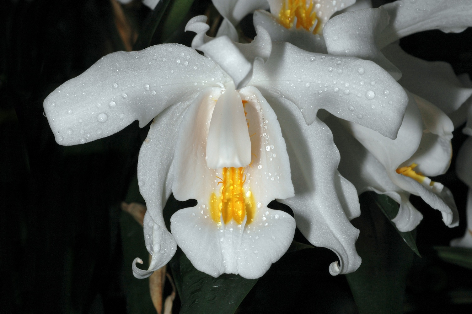 Species from the Himalayas